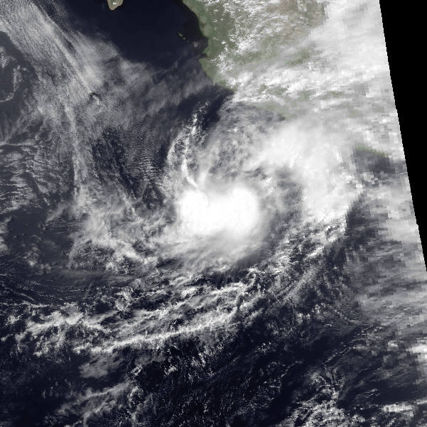 Tropical Storm Aletta on May 21, 1982